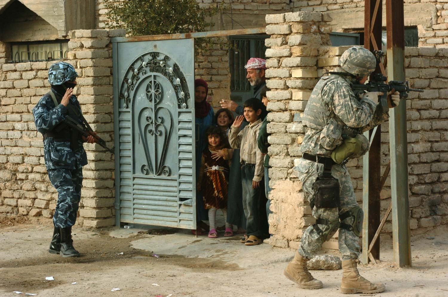 An Iraqi policeman waves to a family while conducting a joint patrol in Samarra, with Soldiers from Company C, 2nd Battalion, 505th Parachute Infantry Regiment on 30 January 2007